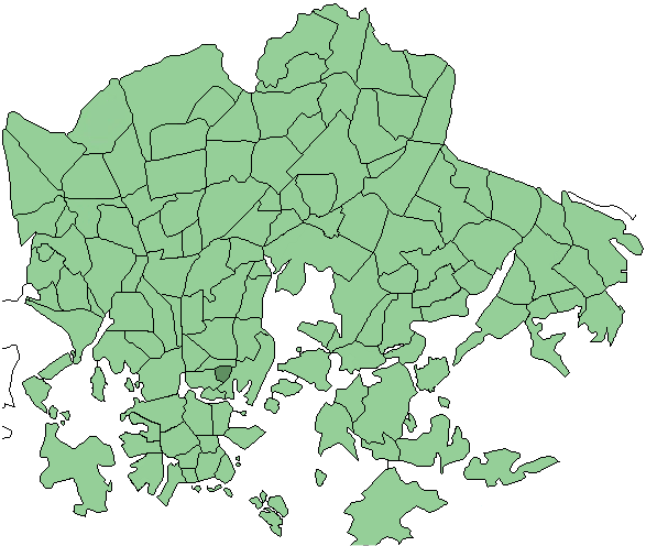 Districts of Helsinki, Torkkelinmäki highlighted